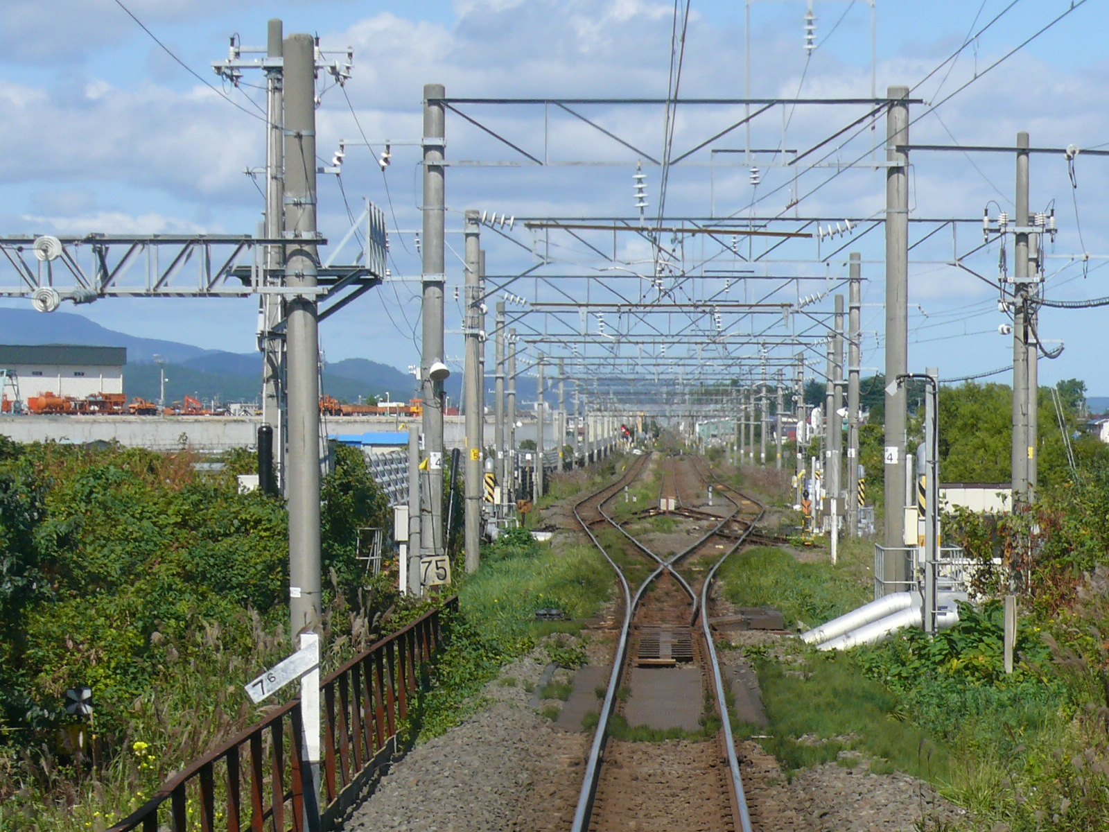 JR East Tsugaru Line Sin-Aburakawa Signal station.